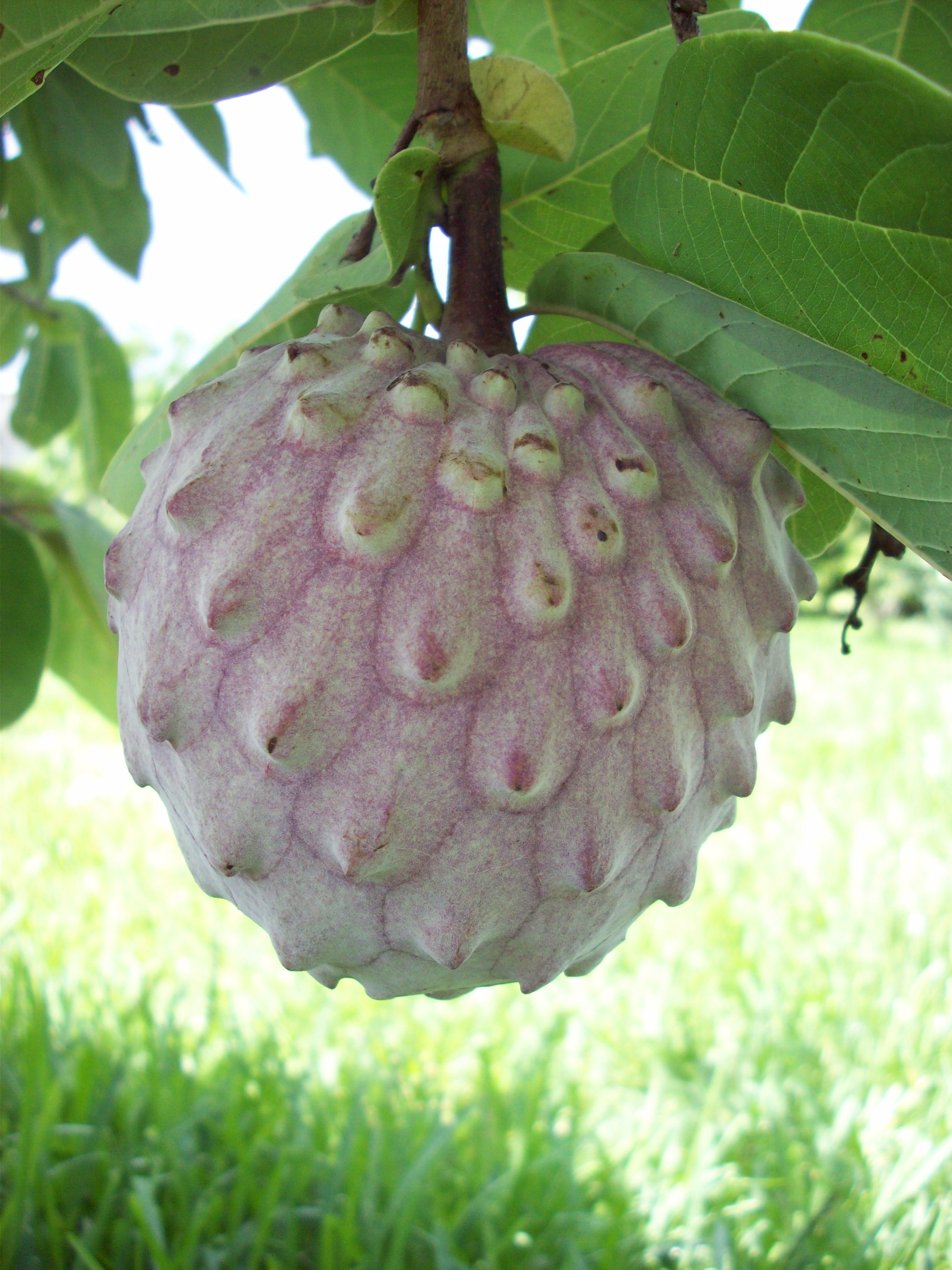 Ilama (Annona diversifolia) fruit